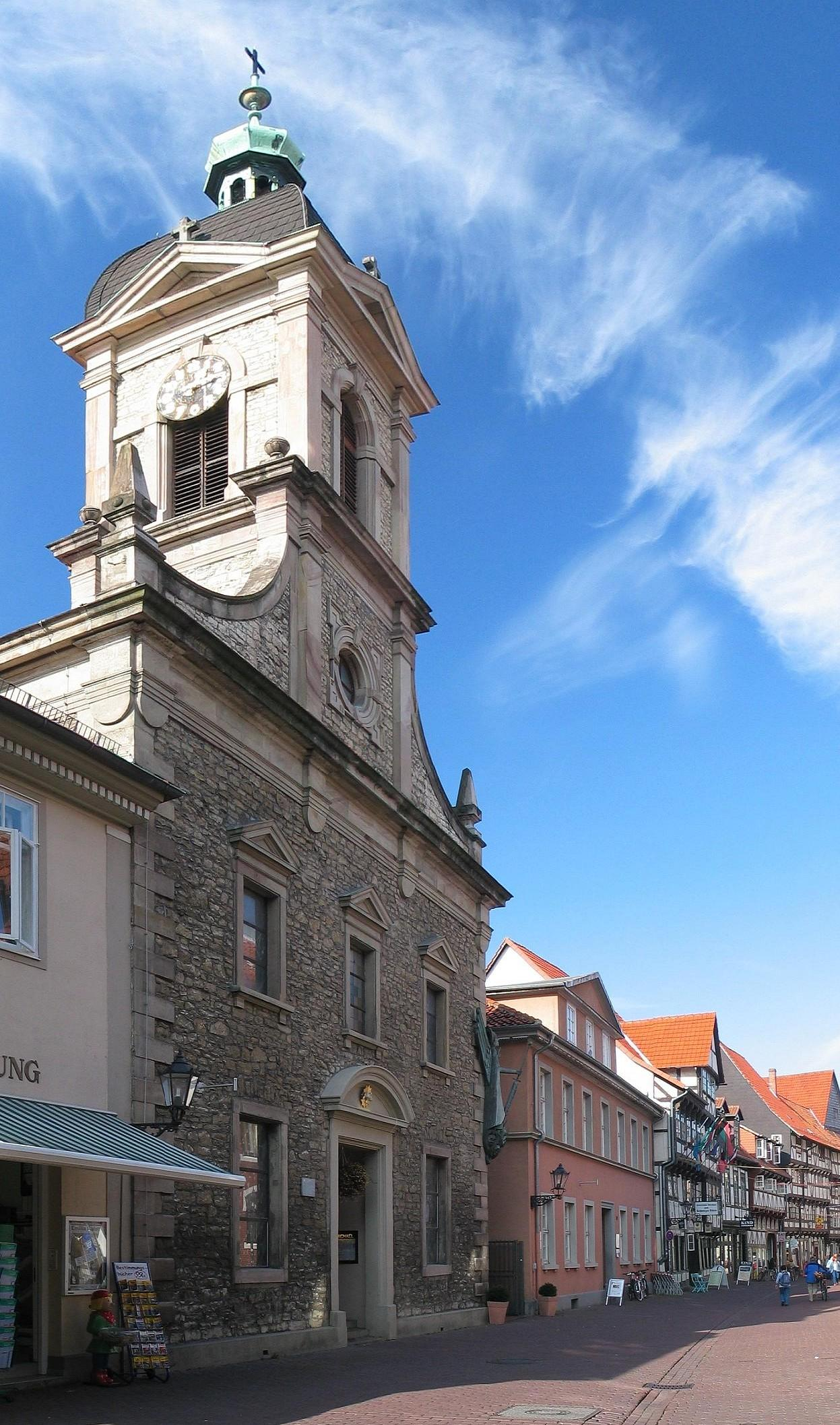 Corner of Turm Strasse and Kurze Strasse, St. Michael church and south part of the pedestrian zone.